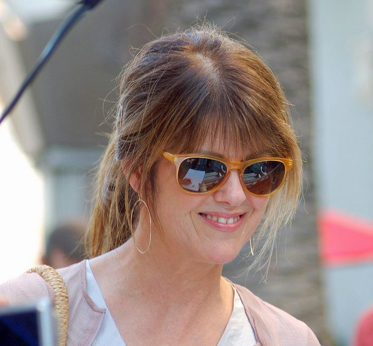 Pam Dawber at the Hollywood Walk of Fame ceremony for Mark Harmon, October 1, 2012